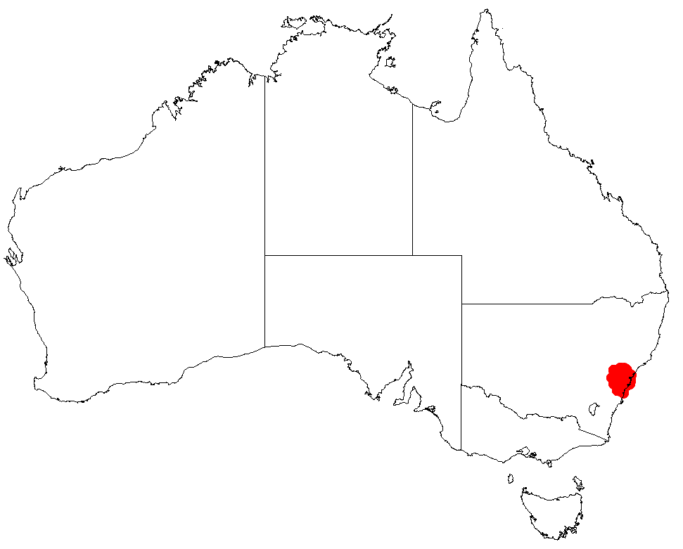 Persoonia hirsuta Occurrence data downloaded from Australasian Virtual Herbarium on 30 October 2018 from